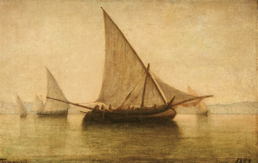 "Muletas" of the Tagus, by Luís Tomasini